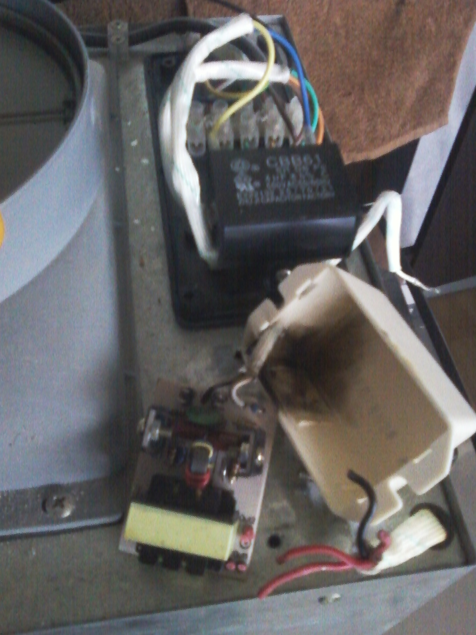 Burnt power supply from kitchen air extractor. Actually, this power supply is not required at all here; usual voltage transformer is too enough for supplying halogen lamps.